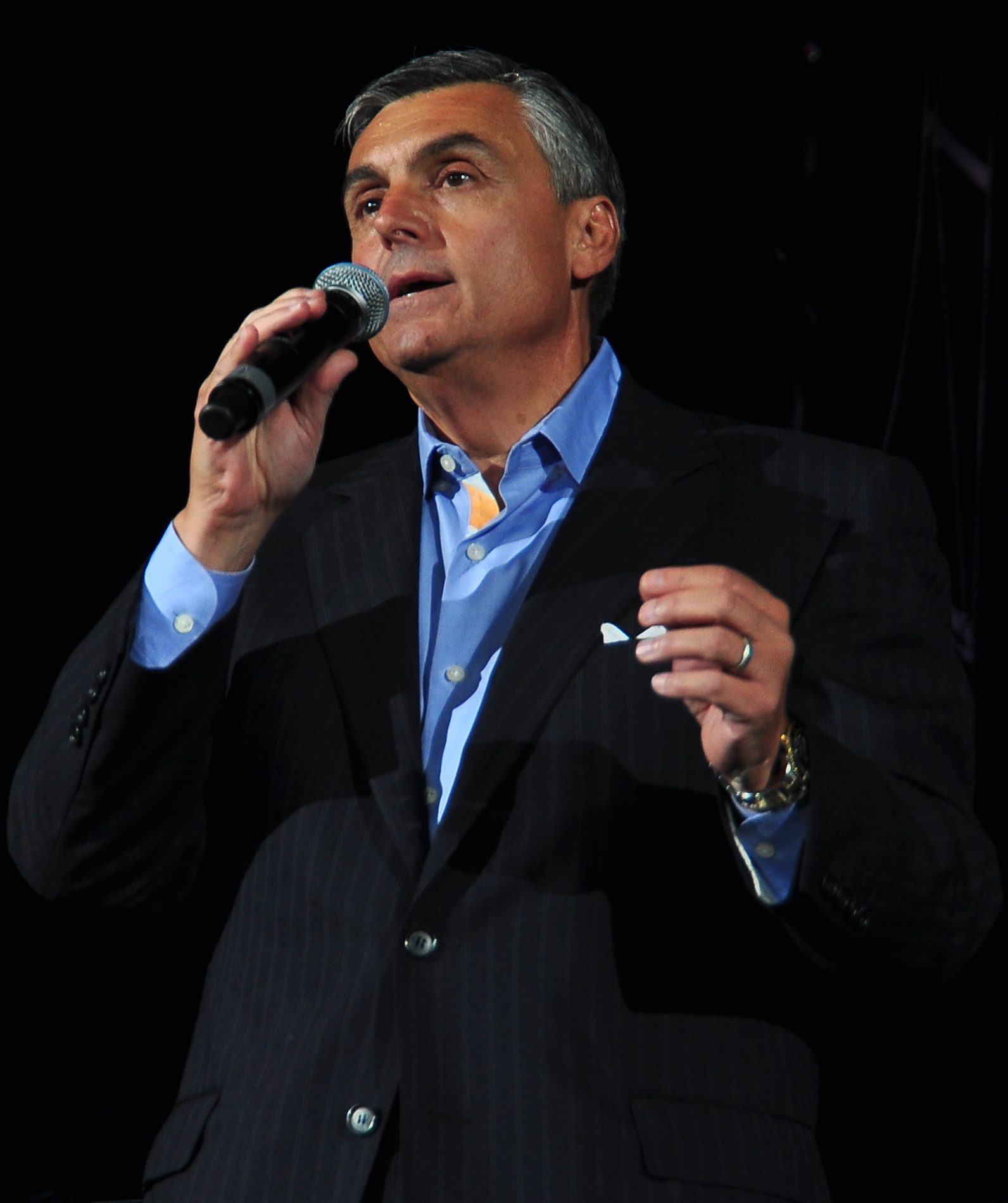 Certified Financial Planner, author, radio and television personality Ray Lucia at Sean Hannity's Freedom Concert in San Diego, California, August 28, 2010. Photo by Andi Hazelwood. This photos is licensed under the Attribution 3.0 license, which means it can be used and modified for any purpose only if the author is properly credited where it is used.